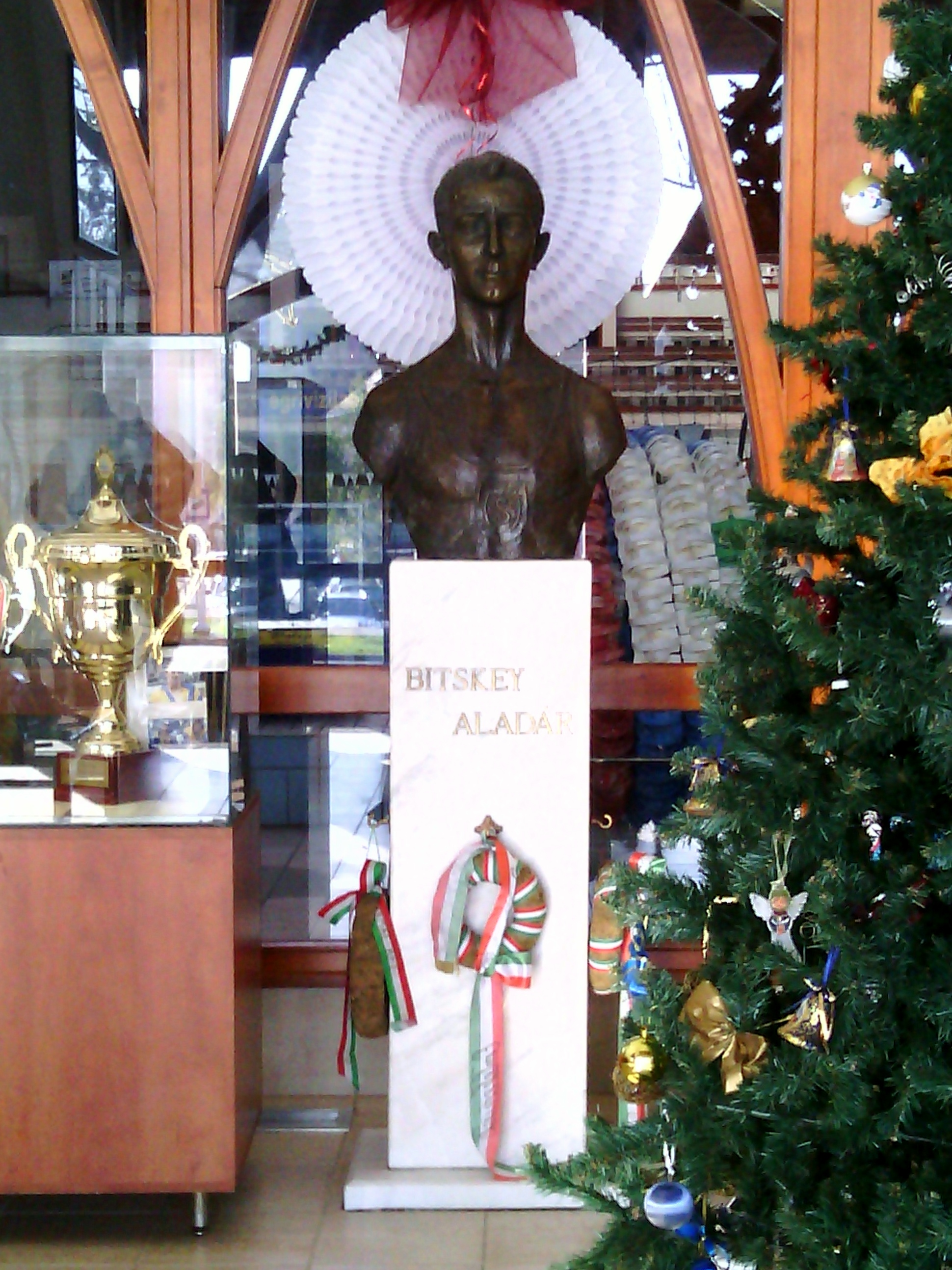 Bust of Aladár Bitskey in Bitskey Swimming Pool